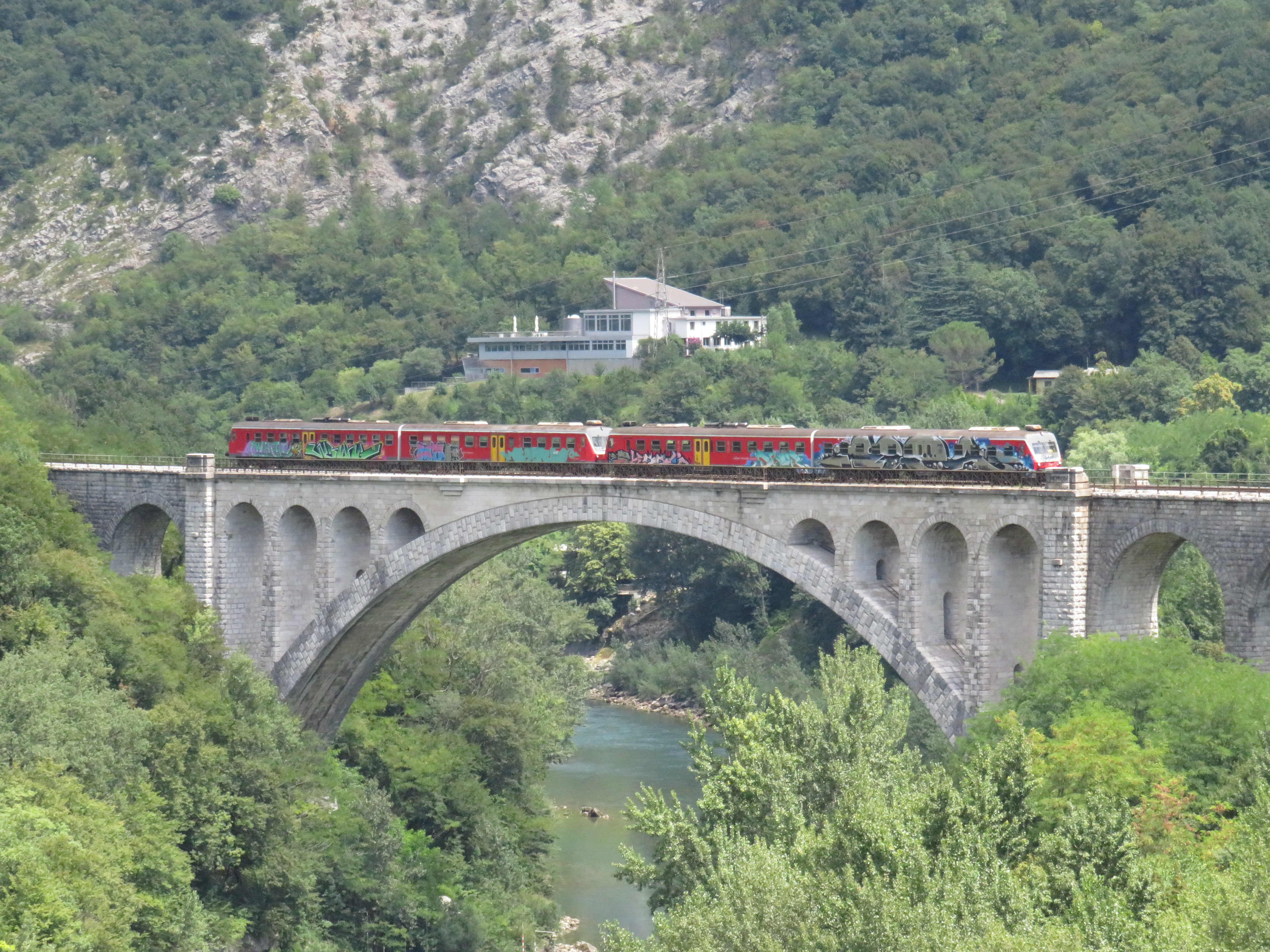 Two SZ 813 trainsets crossing the Solkan bridge